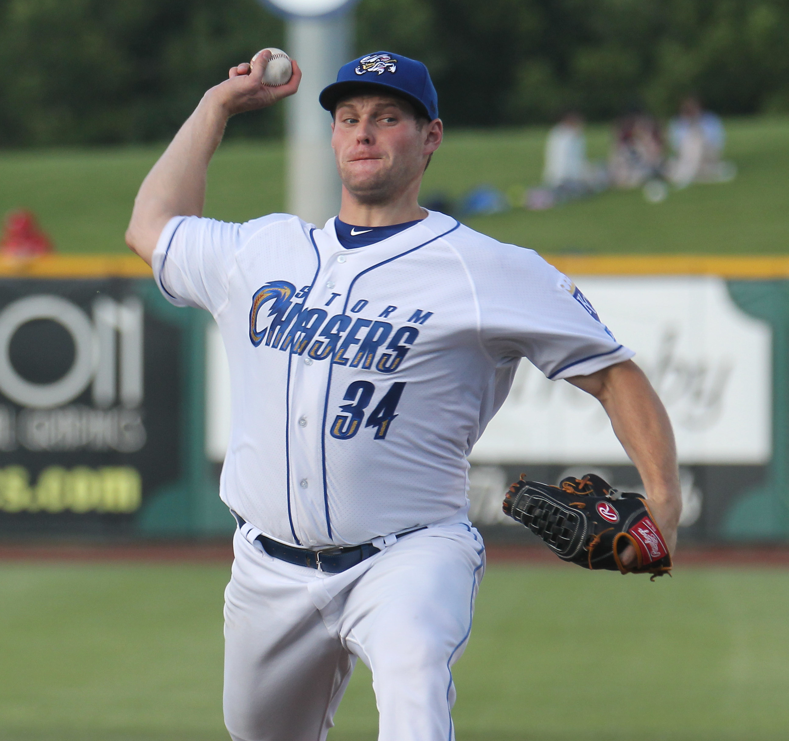 Trevor Oaks delivers a pitch for the Omaha Storm Chasers at Werner Park in 2018.